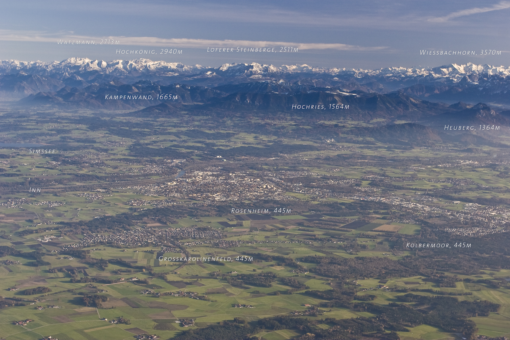 Aerial picture of Roseneheim